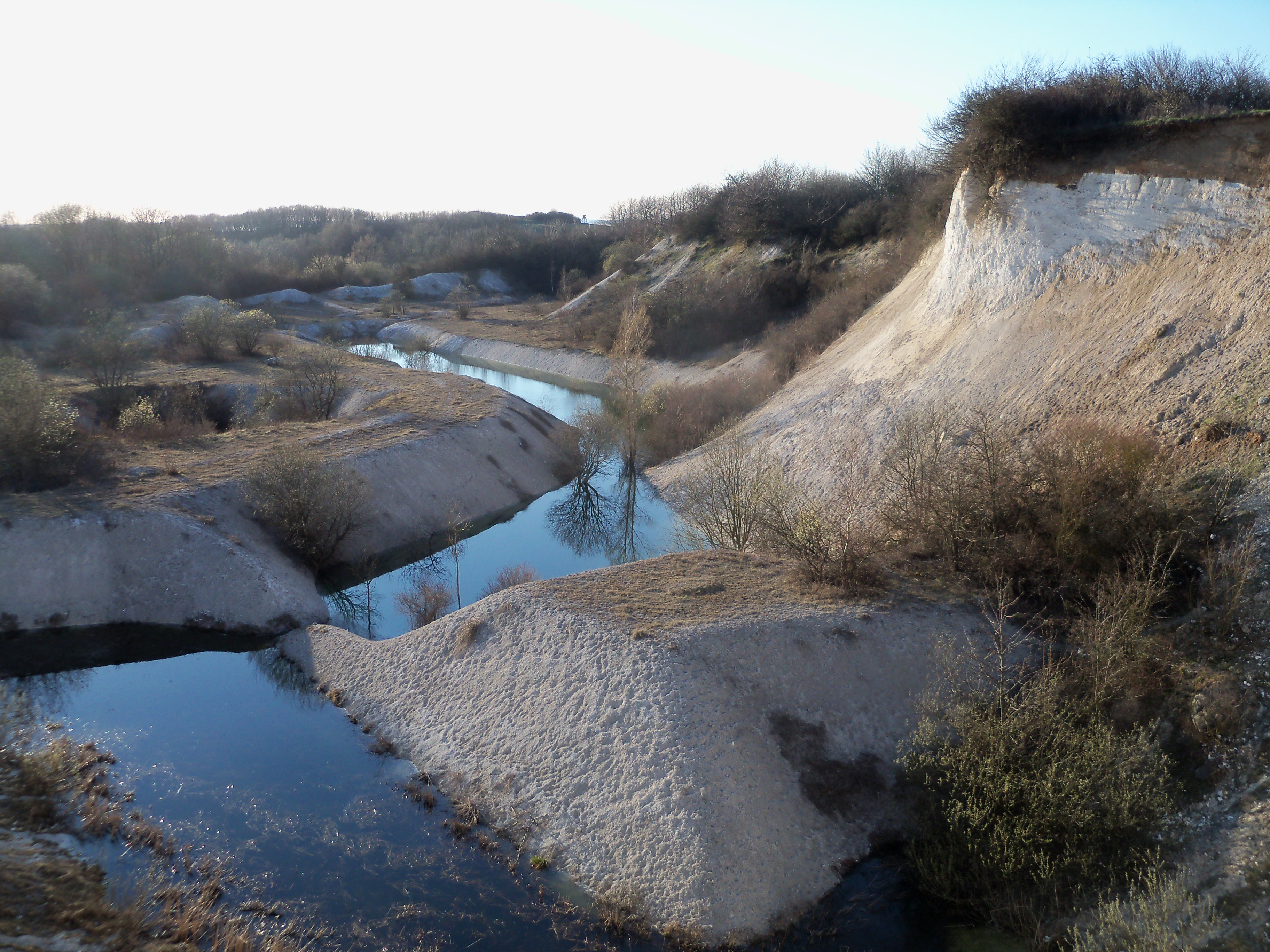 Old chalk pit (abandoned since the 1960s) on Jasmund pensinsula, Rügen, Mecklenburg-Vorpommern, Germany; part of Jasmund National Park